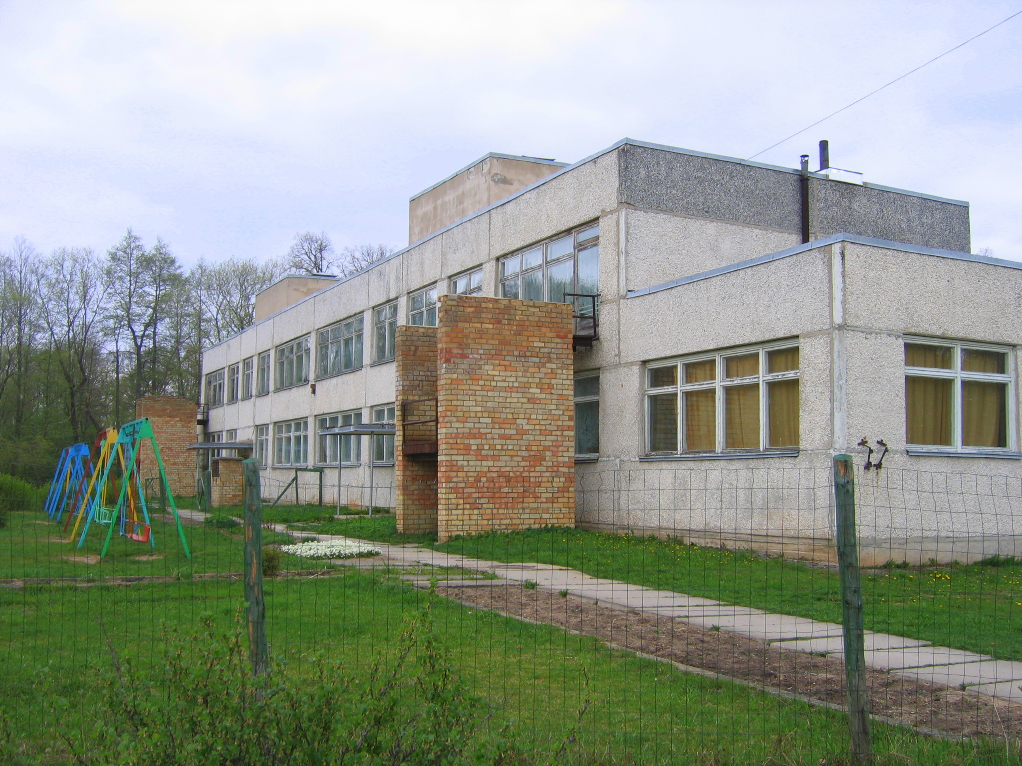 Rundēnu Preschool & library